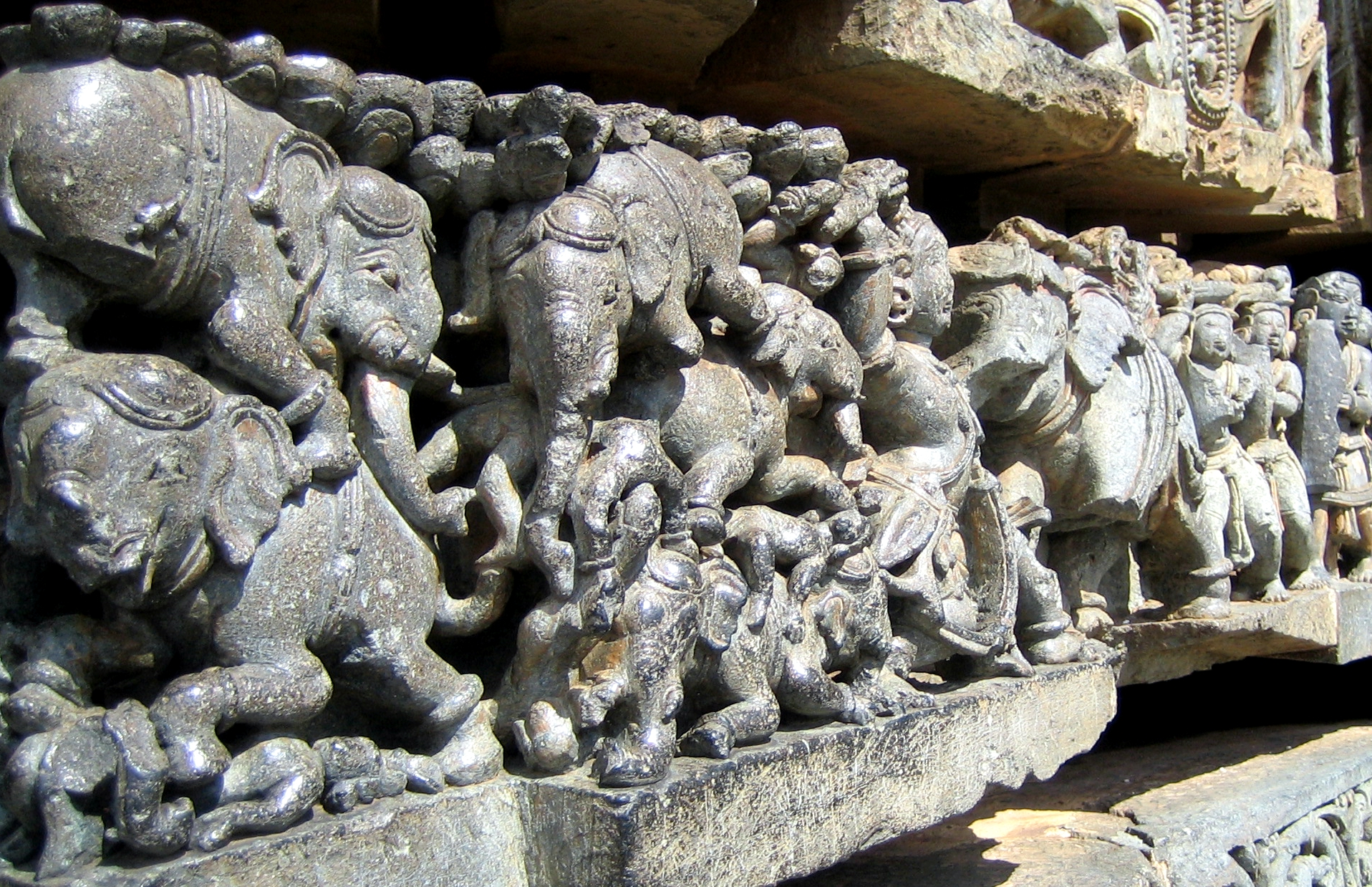 Halebidu. According to legends, Bheema is supposed to have the strength of a thousand elephants. Here's a scene from the battle of Mahabharata, where Bheema kills a thousand elephants effortlessly and casts them aside. The pile in the left corner is the pile of killed elephants, and apparently, the pile touched the firmamement.